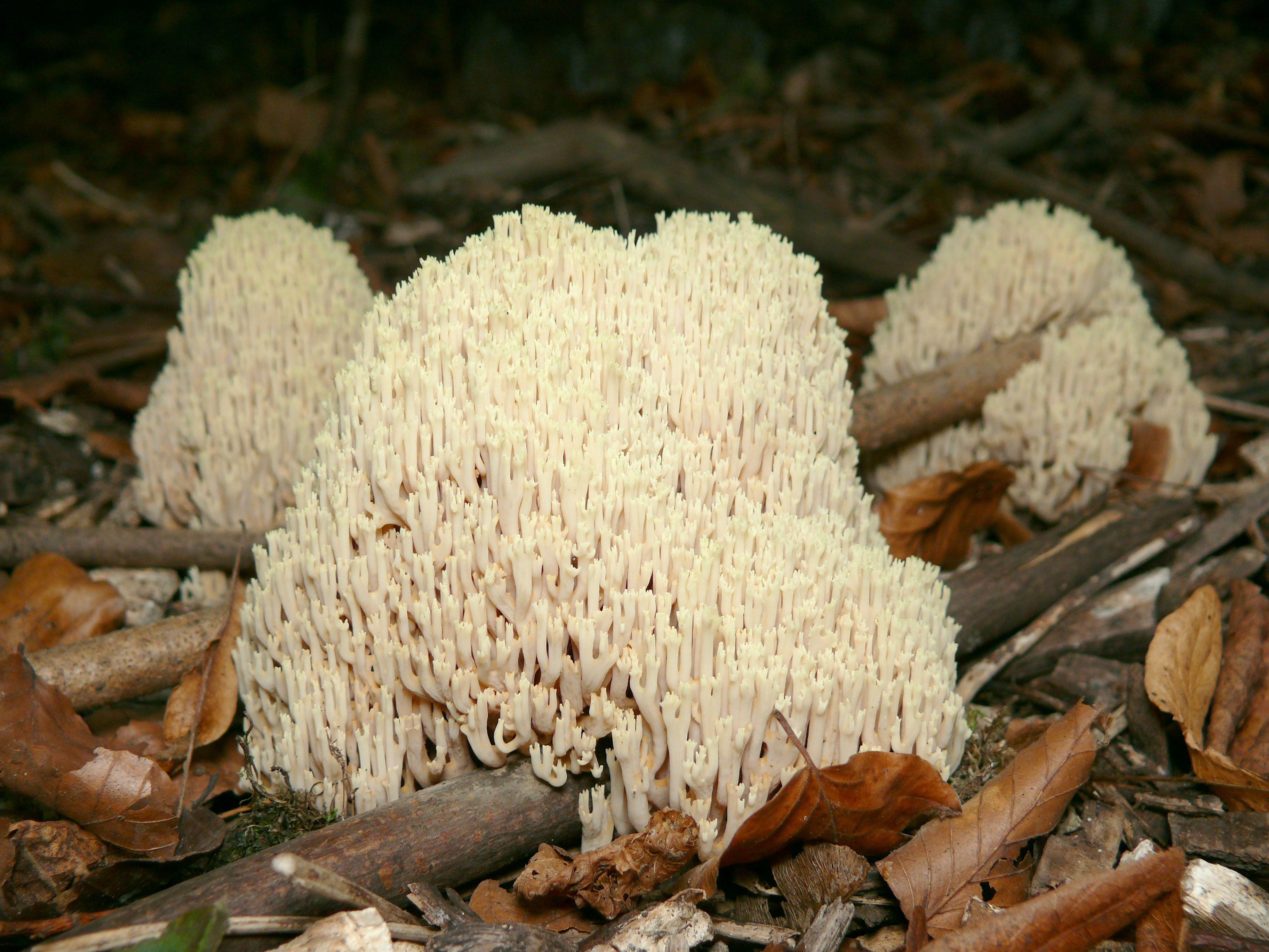 Likely Ramaria stricta (?), city wilderness